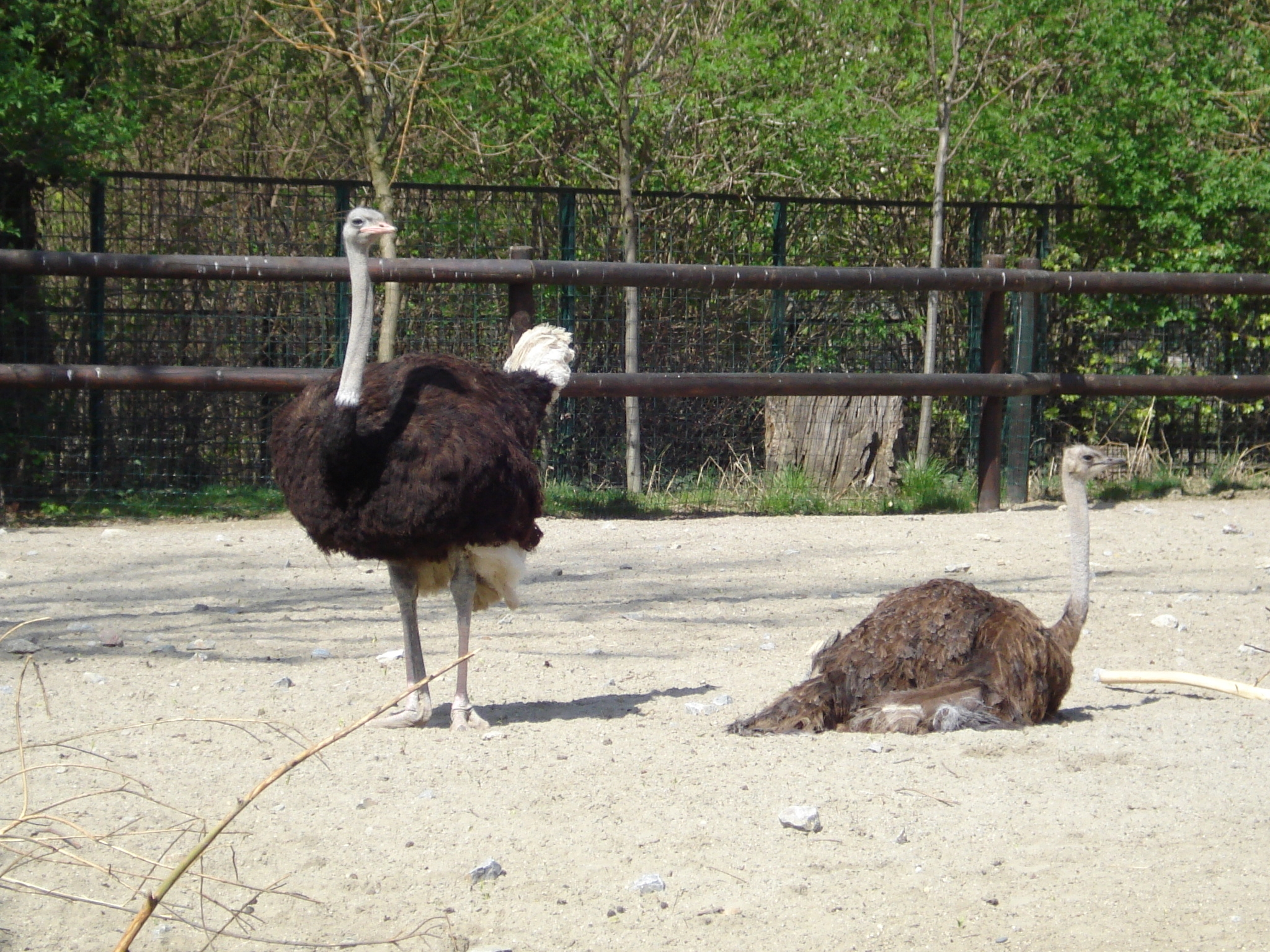 Common ostrich in Zagreb Zoo (april 2012)